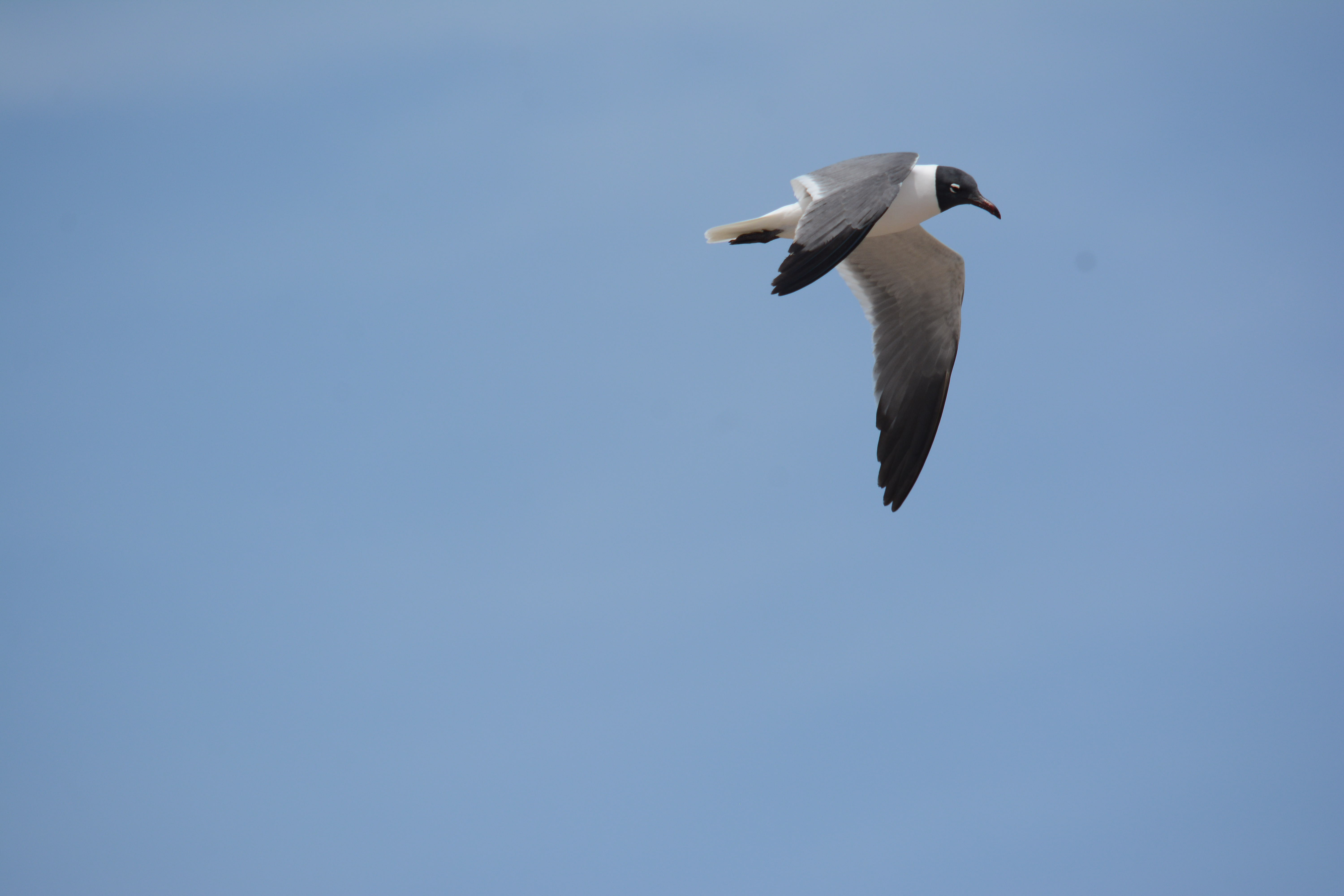 laughing gull (Leucophaeus atricilla) in spring; Miramar beach, Madero, Tamaulipas, Mexico